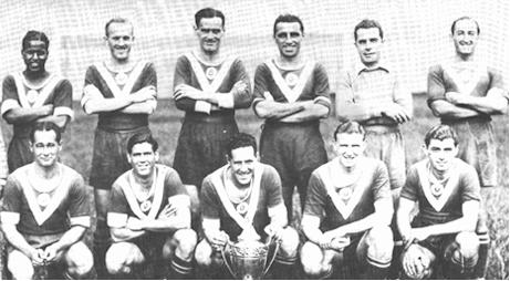 fcgb team